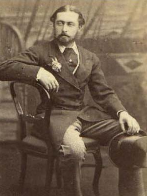 Alfred, Duke of Saxe-Coburg and Gotha